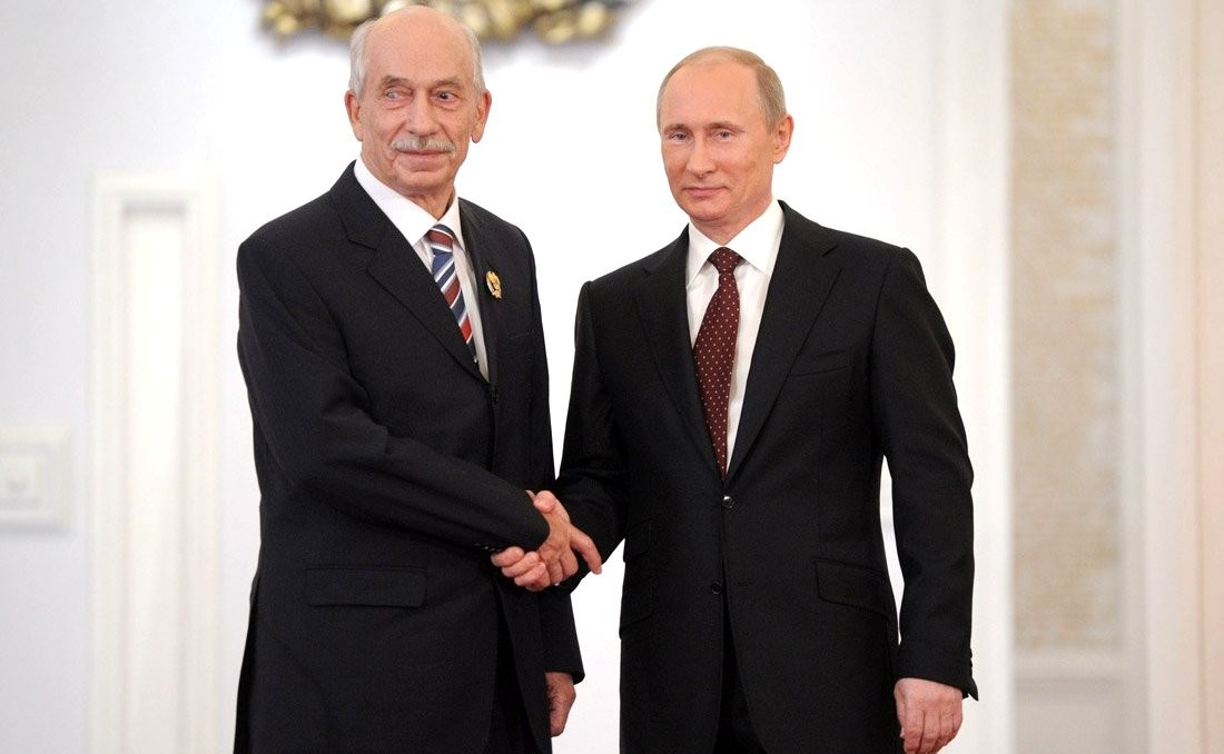 Boris Trofimov at the State Prize of the Russian Federation awards ceremony